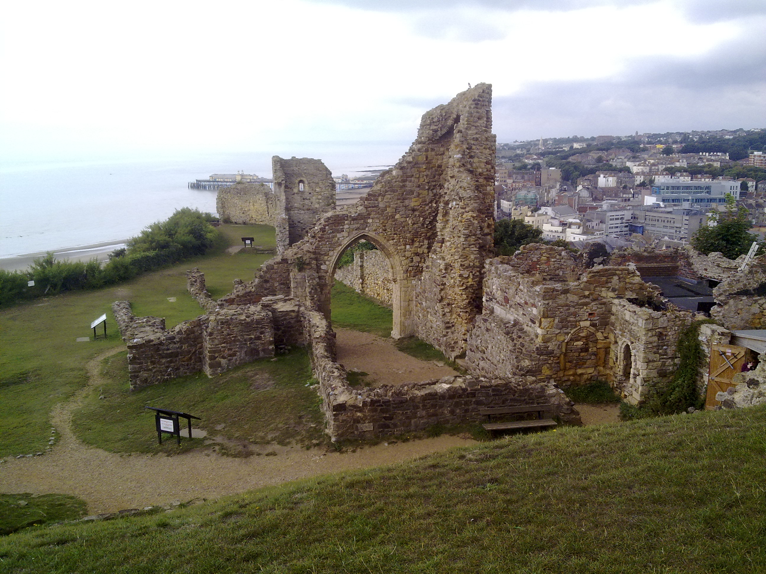 Hastings castle